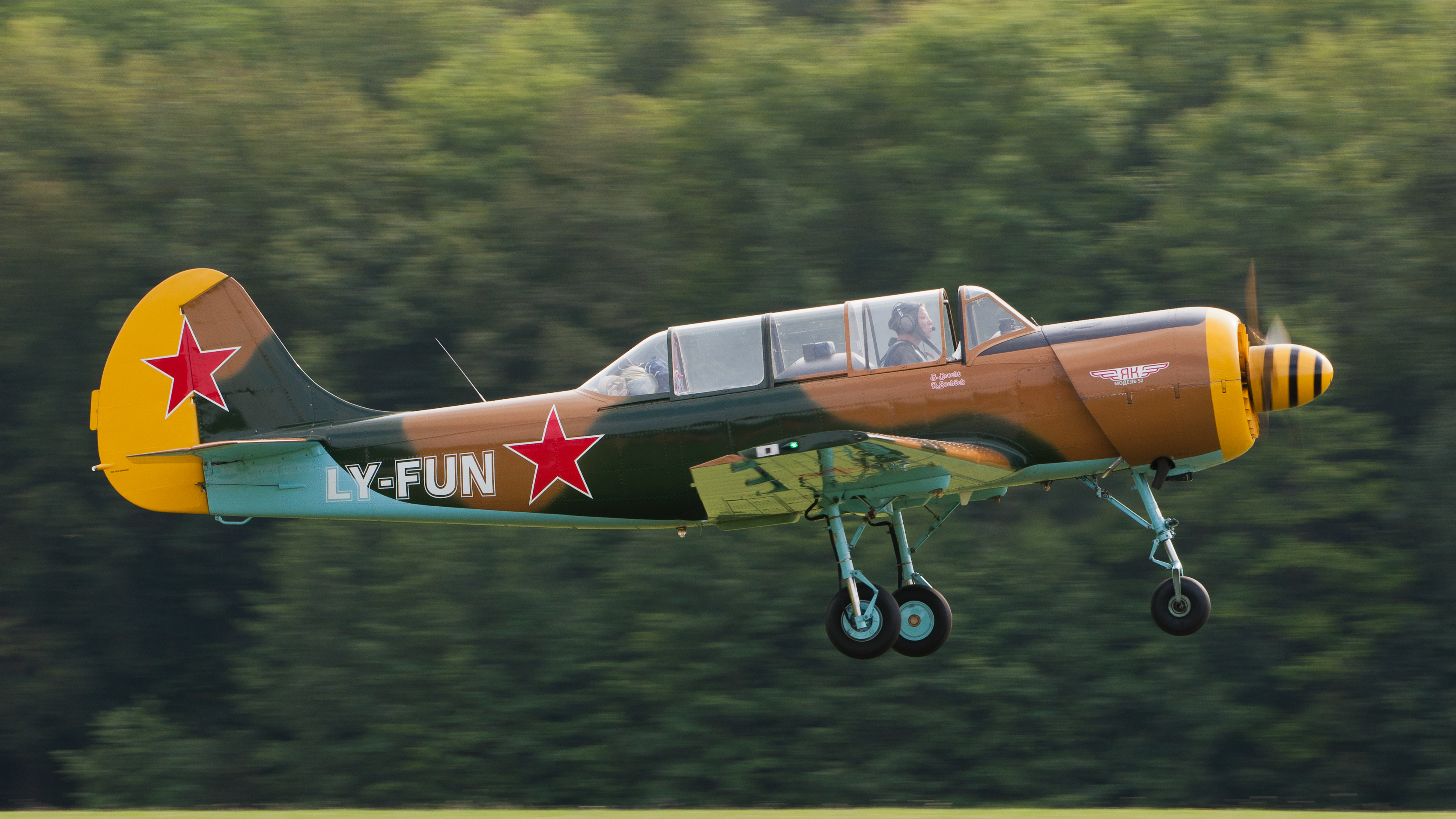 Yakovlev Yak 52 (reg. LY-FUN, cn 867211, built in 1986).